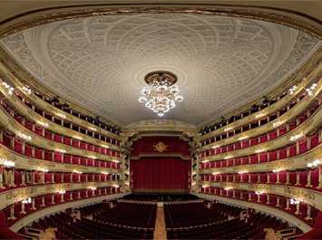 architettura